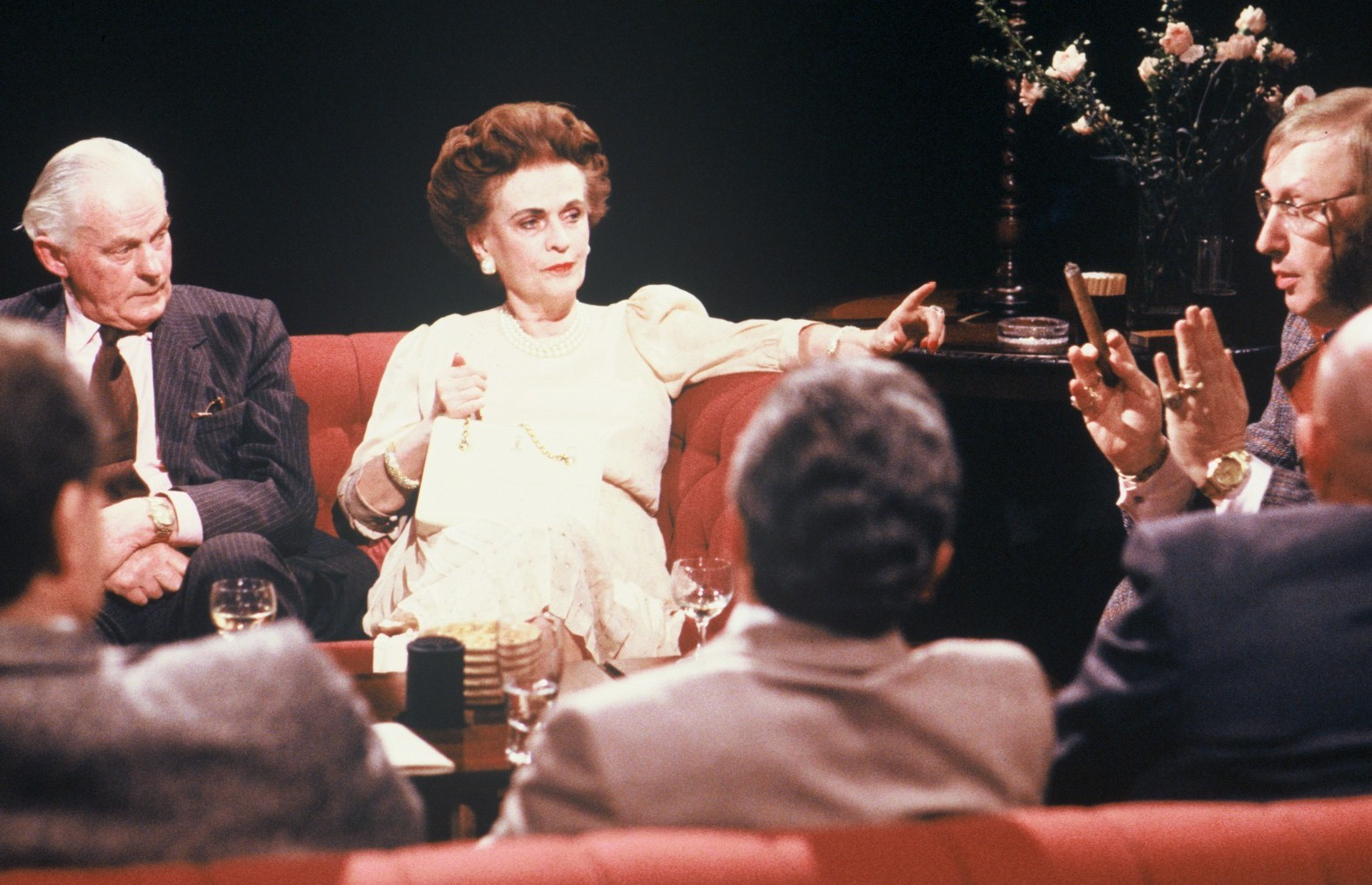 Television programme After Dark on 9th April 1988, showing guests Cecil Blacker, Margaret Campbell and John McCririck ("Horse Racing: Sport Of Kings?"). (c)1988 Open Media Ltd.